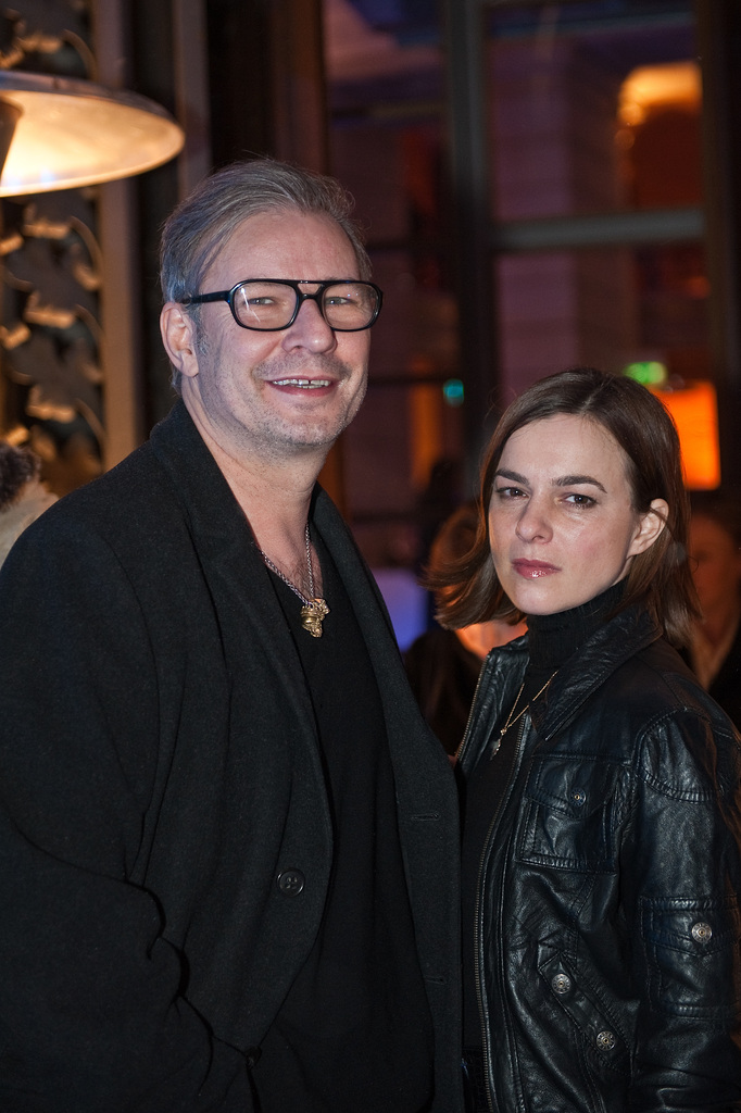 German film and theater director Leander Haußmann and his girlfriend actress Annika Kuhl at the ARD DEGETO Blue Hour Party 2010.